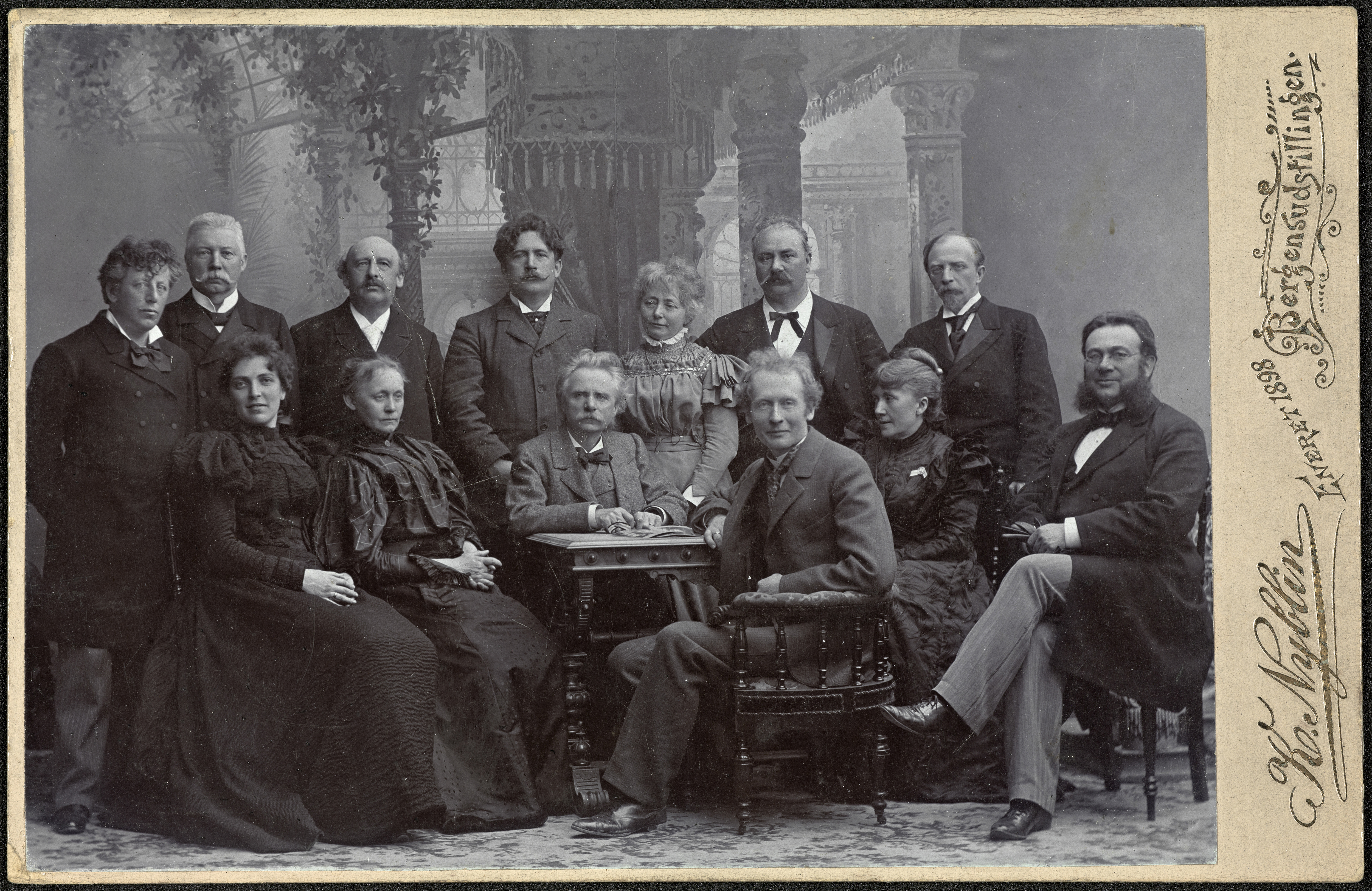 Beskrivelse / Description: Bildet stammer fra arkivet etter komponist Gerhard Schjelderup (1859-1933) Dato / Date: 1898 Sted / Place: Hordaland, Bergen Fotograf / Photographer:K. Nyblin (Bergen) Digital kopi av original / Digital copy of original: s/h papirpositiv, kabinettkort / cabinet card Eier / Owner Institution: Nasjonalbiblioteket / National Library of Norway Lenke / Link: Bildesignatur / Image Number: blds_06722